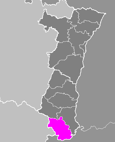 Maps of arrondissements and cantons of France: Arrondissement d Altkirch.PNG (Région Alsace)